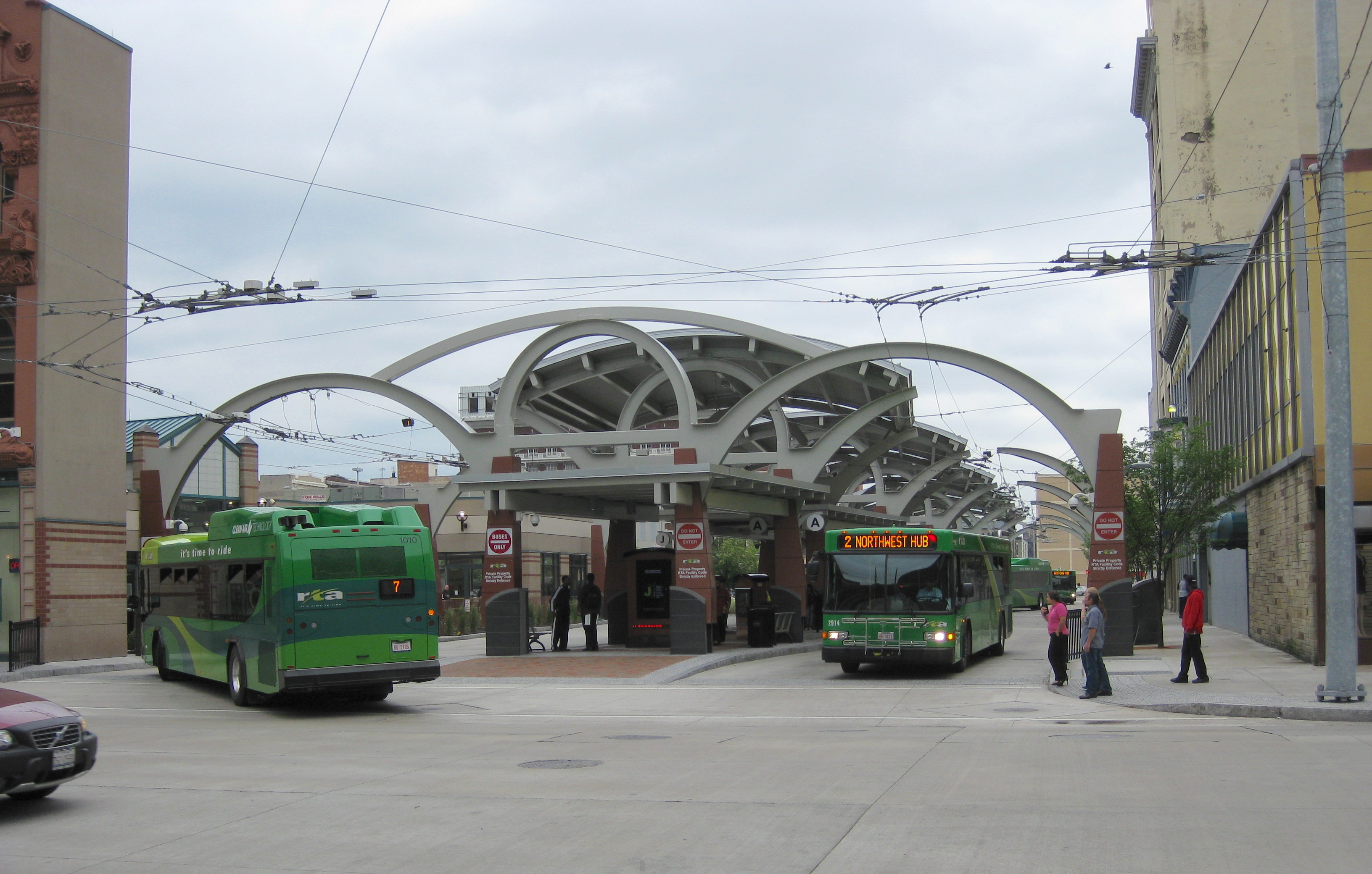 Wright Stop Plaza transit center, in downtown Dayton (Ohio), from the west, from across Main Street. At left, a Gillig BRT hybrid bus (No. 1010) is turning into the TC, and a right a Gillig standard low-floor diesel bus (No. 2914) is waiting to turn out of the TC, onto Main Street. The transit center opened for service on September 1, 2009 (eight days after an August 24 ribbon cutting).